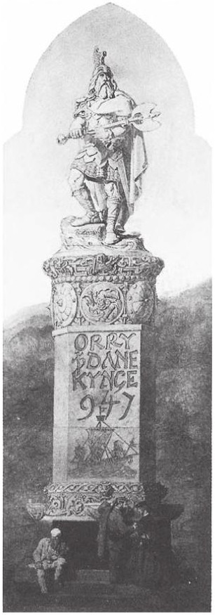 A painting of a proposed statute commemorating Orry the Dane.